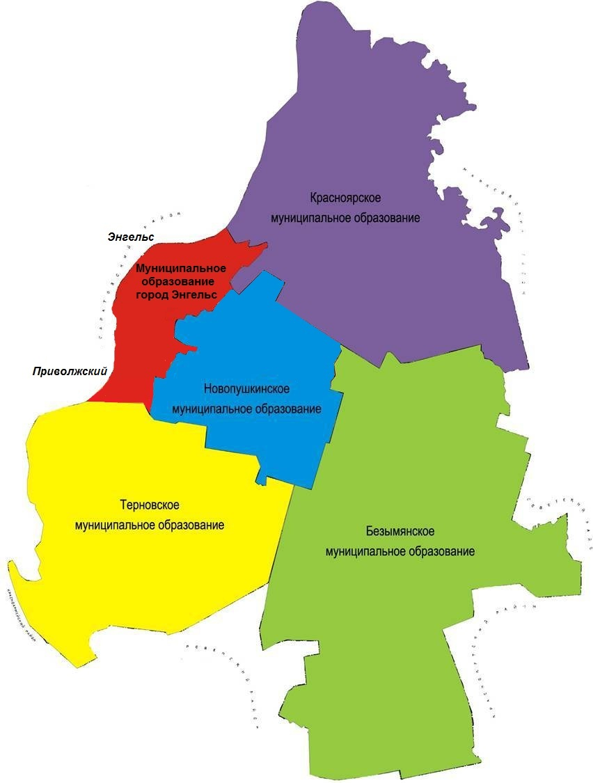 Map of municipalities of the Engels Municipality District, Saratov Region 2013